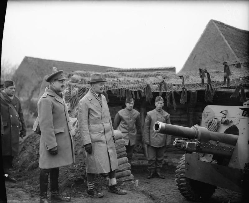 The British Army in France 1939-40 The Prime Minister Neville Chamberlain inspects a 25-pdr field gun at Bachy, 15 December 1939.